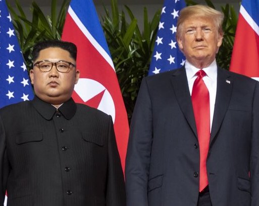 Trump and Kim standing next to each other on the red carpet during the Singapore summit